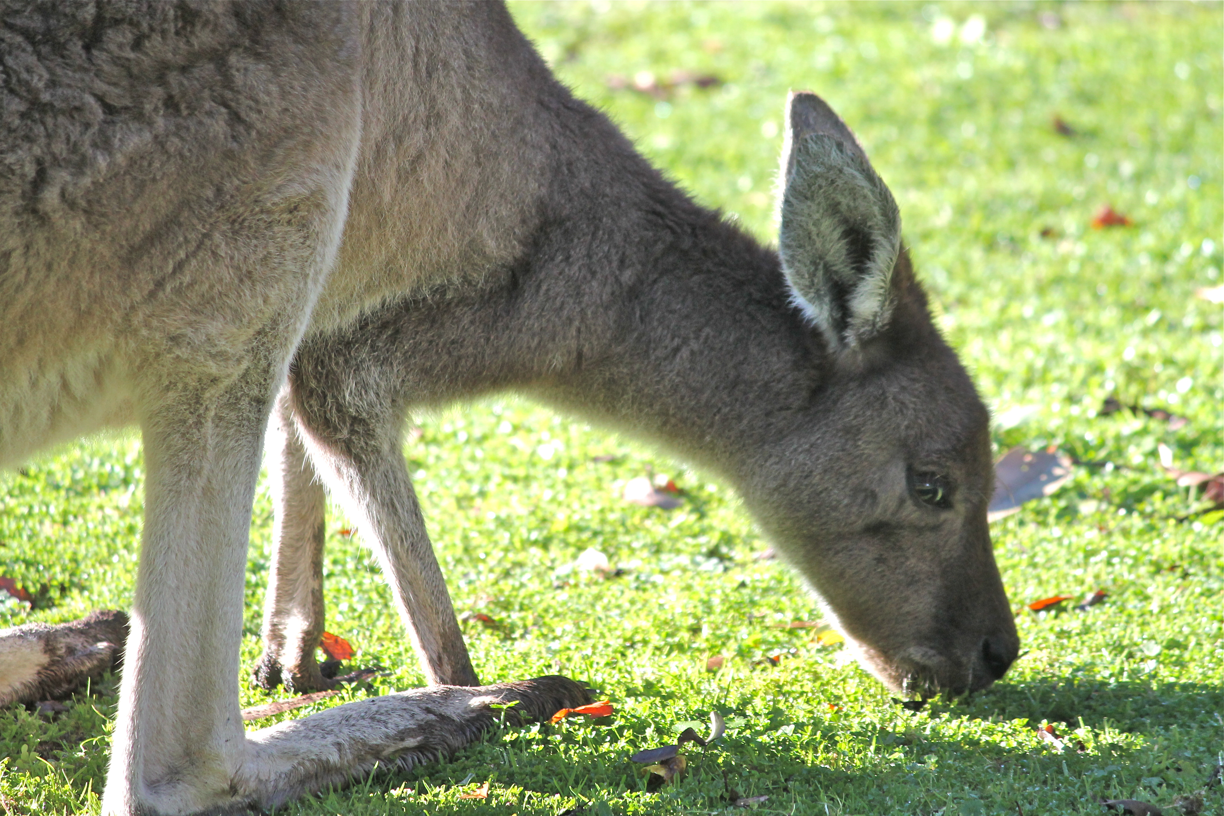 Juvenile Western Grey kangaroo grazing near Mundaring Weir